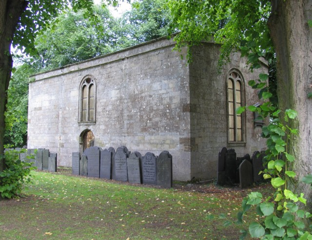 St Mary in Arden. More information may be found on the sign adjacent to the ruins 230246 or at [1]